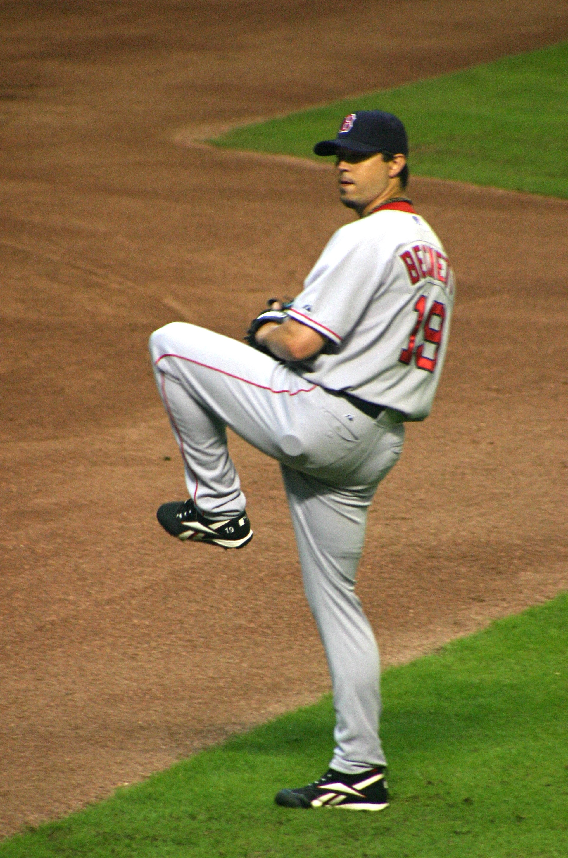 Josh Beckett 01:38, 23 July 2008 . . PhreddieH3 . . 1,943×2,936 (2.01 MB)